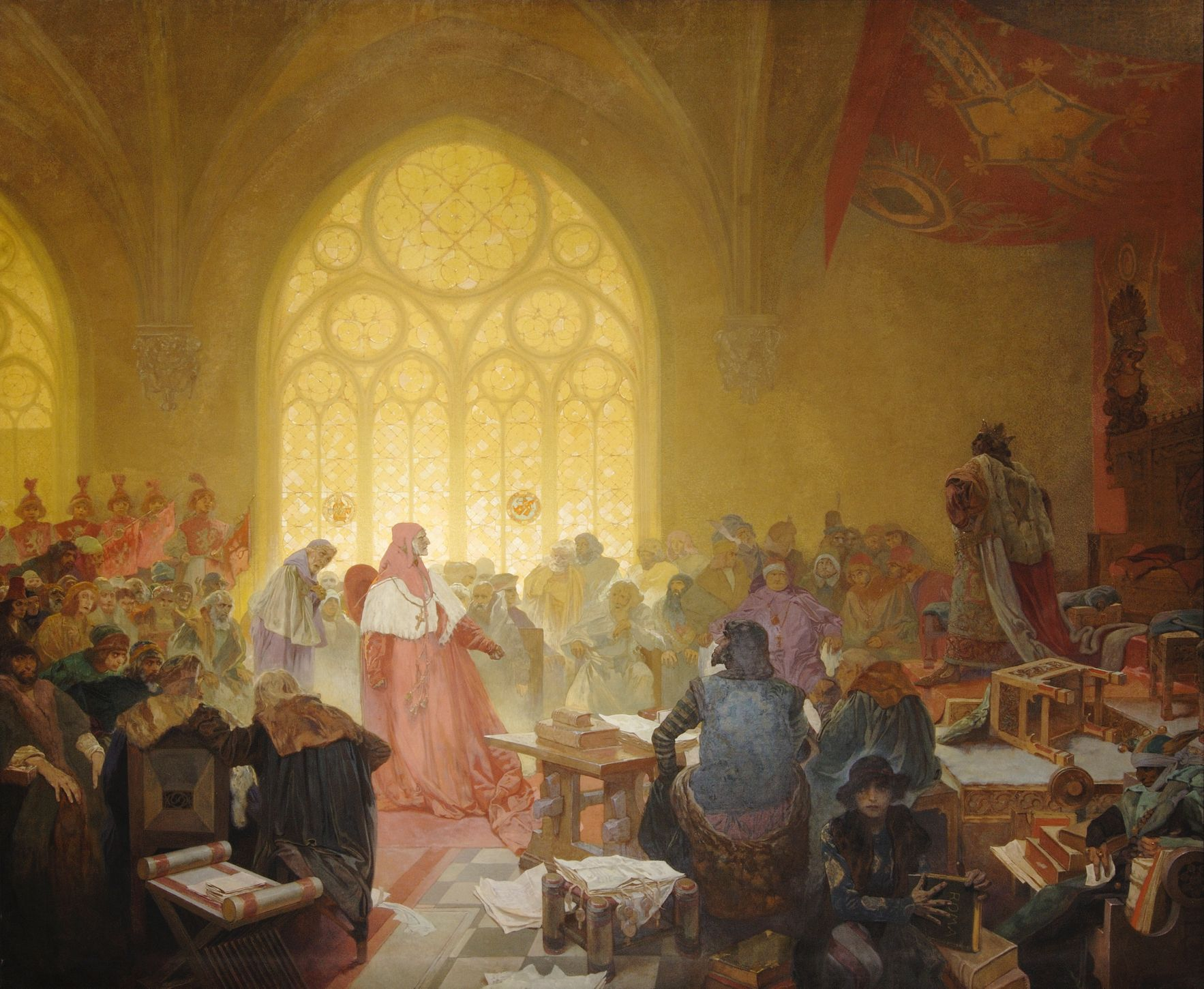 The Hussite King Jiří of Poděbrady and Kunstat